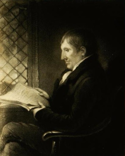 Portrait of Thomas Sanderson (1759–1829), English poet.